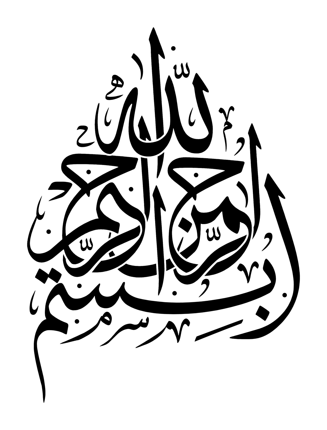 Basmalah Arabic calligraphy Thuluth